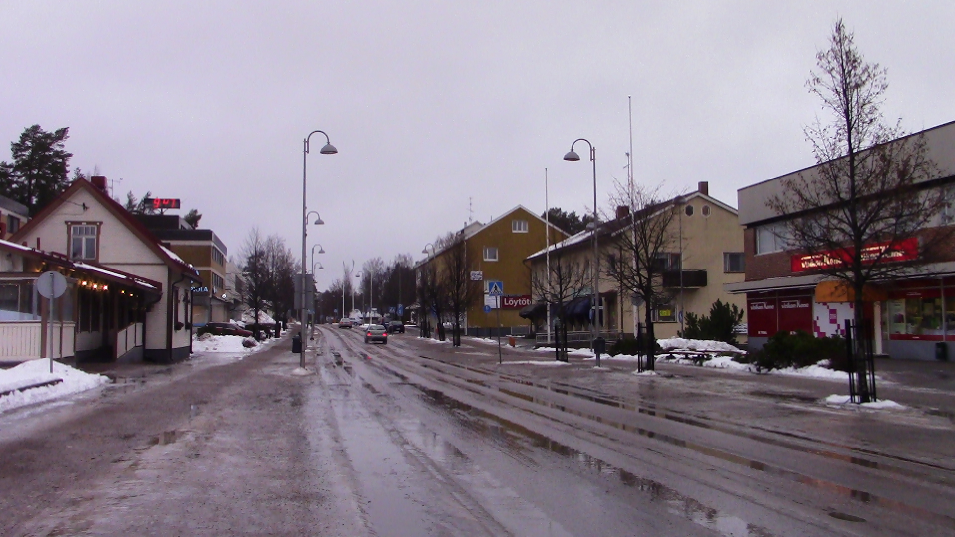 Virtaintie road seen from southeast in Virrat, Finland. The road is known as a main street of town center.